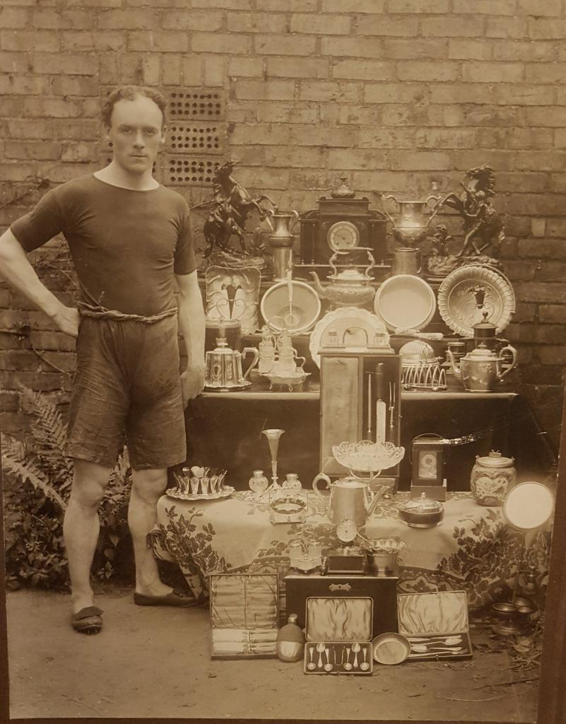 Photograph of Sydney Beaumont with his running cups